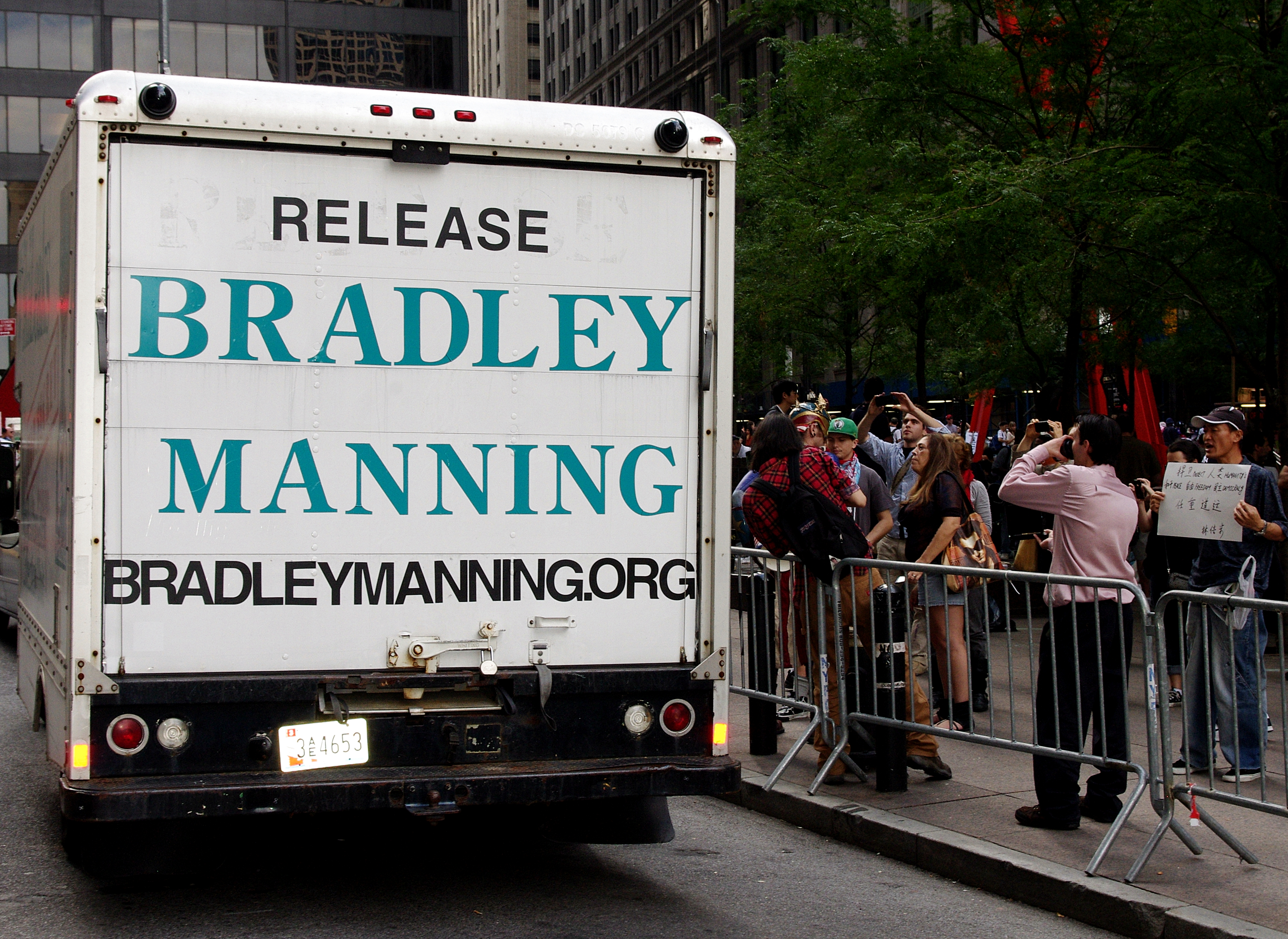 Photographs of Occupy Wall Street from Zuccotti Park on Day 9, September 25. Wall Street remains closed to the public.